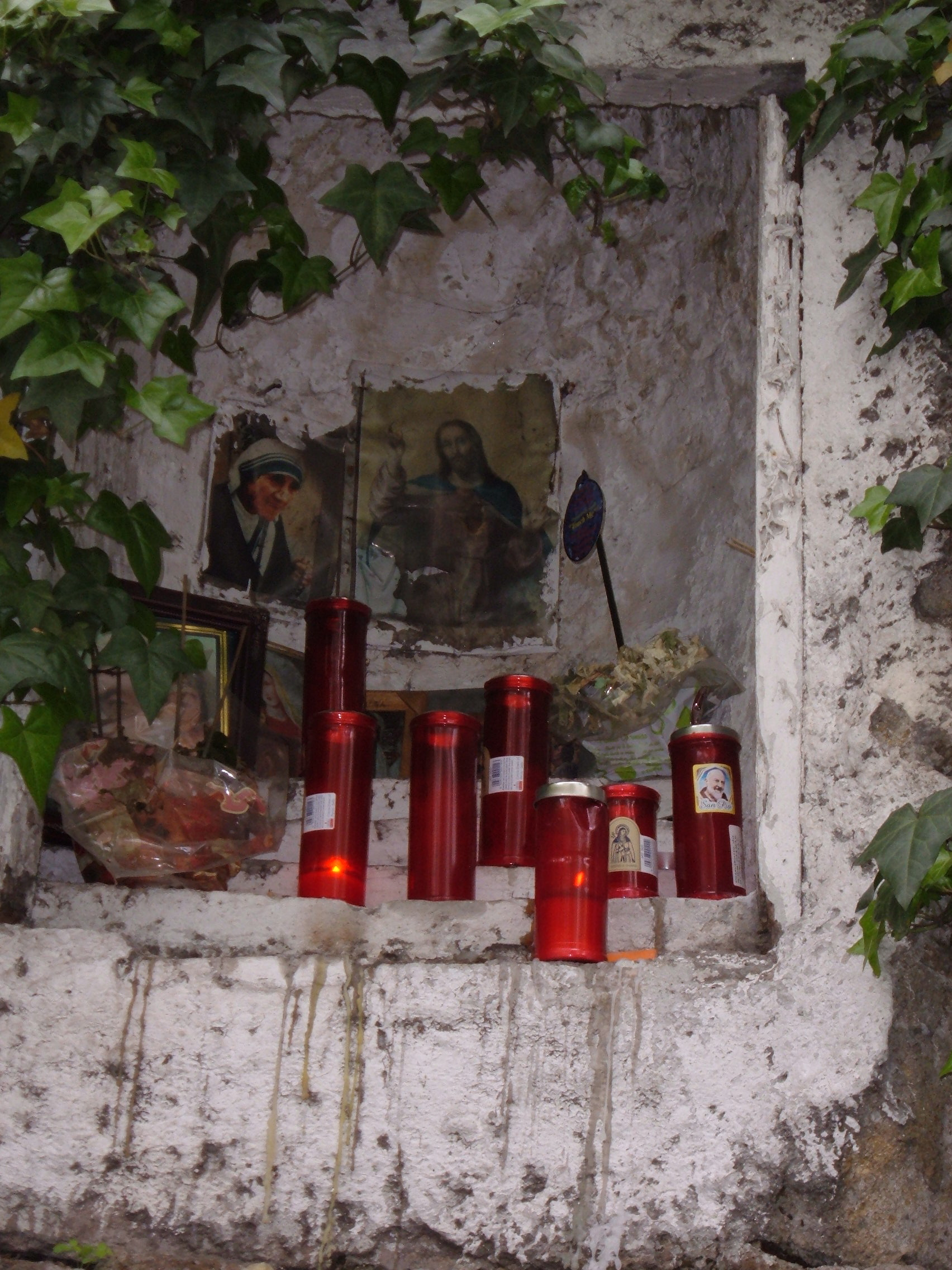 Informal chapel in Rome (near the aquaducts). Small wall chapel with devotions to Jesus, Mother Theresa and Pio of Pietrelcina.